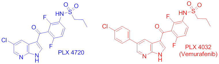 Lorem Ipsum